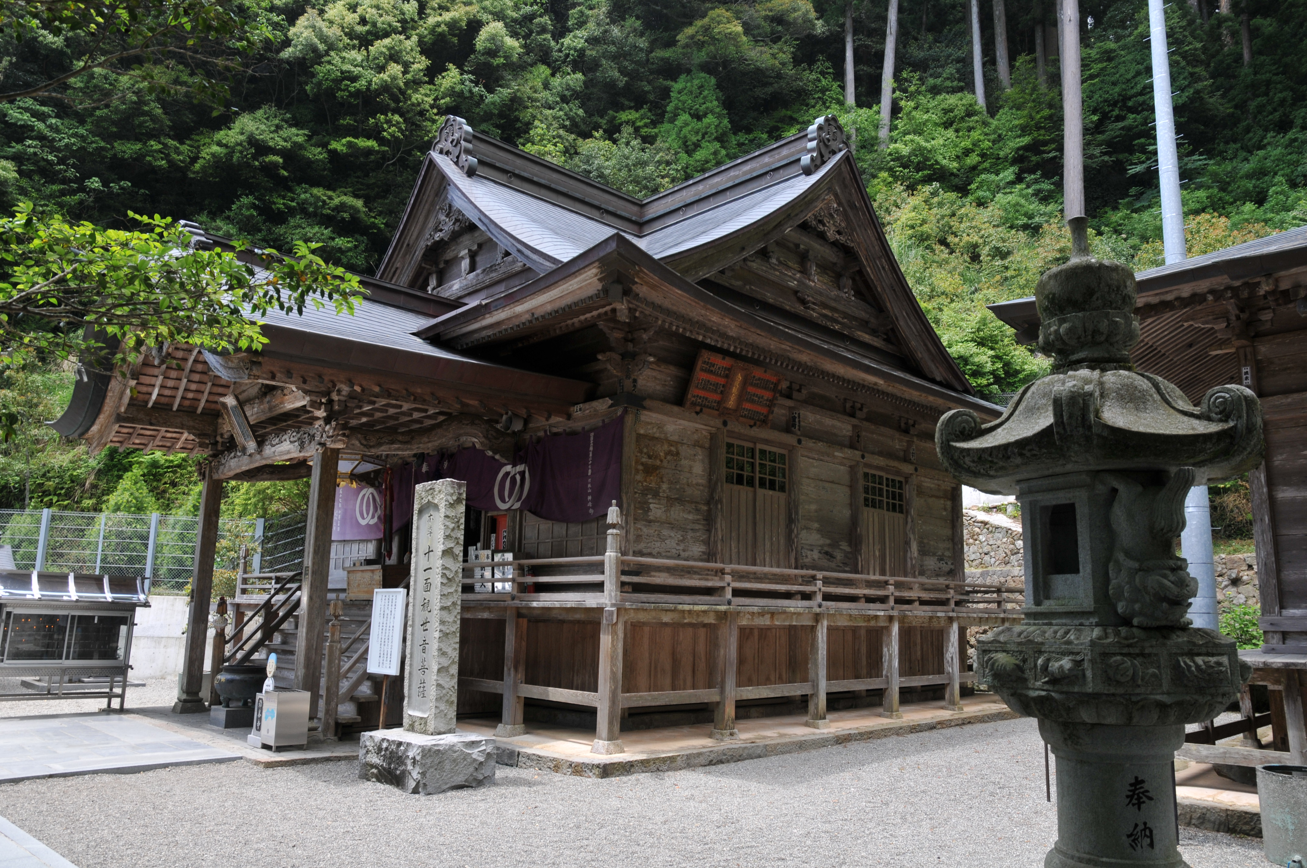 Main temple, Kounomine-ji